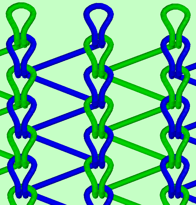 Warp knitting: Tricot (schematic)